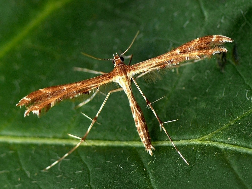 Crombrugghia distans - Slovakia, Trenčín - Hrabovka